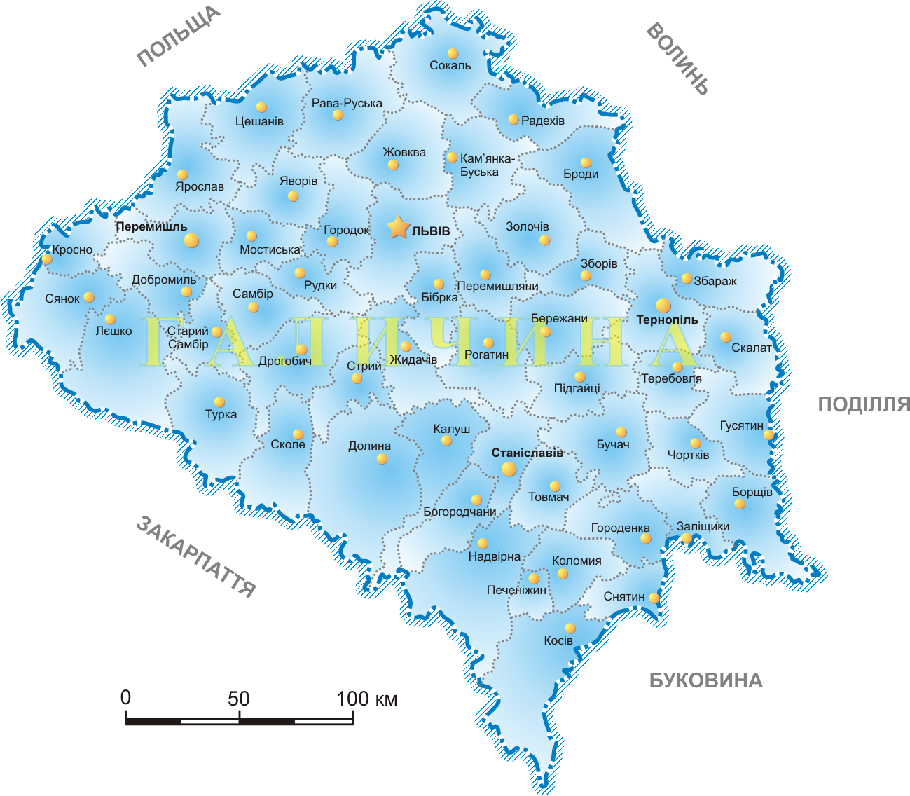 Map of East Galicja with counties (1910)